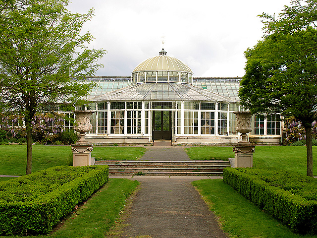 The Conservatory: Chiswick House. This building is now empty, but the gardens in front are being well kept. This view is taken from the south east and is situated in the north western section of the grid square.